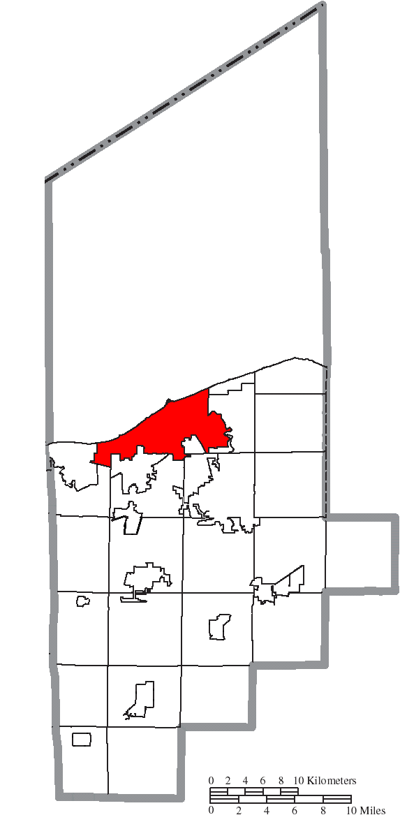 Map of the municipal and township boundaries of Lorain County, Ohio, United States, as of the 2000 census, with the location of the city of Lorain highlighted. Township borders are shown only in unincorporated areas in order to differentiate incorporated and unincorporated areas more clearly.